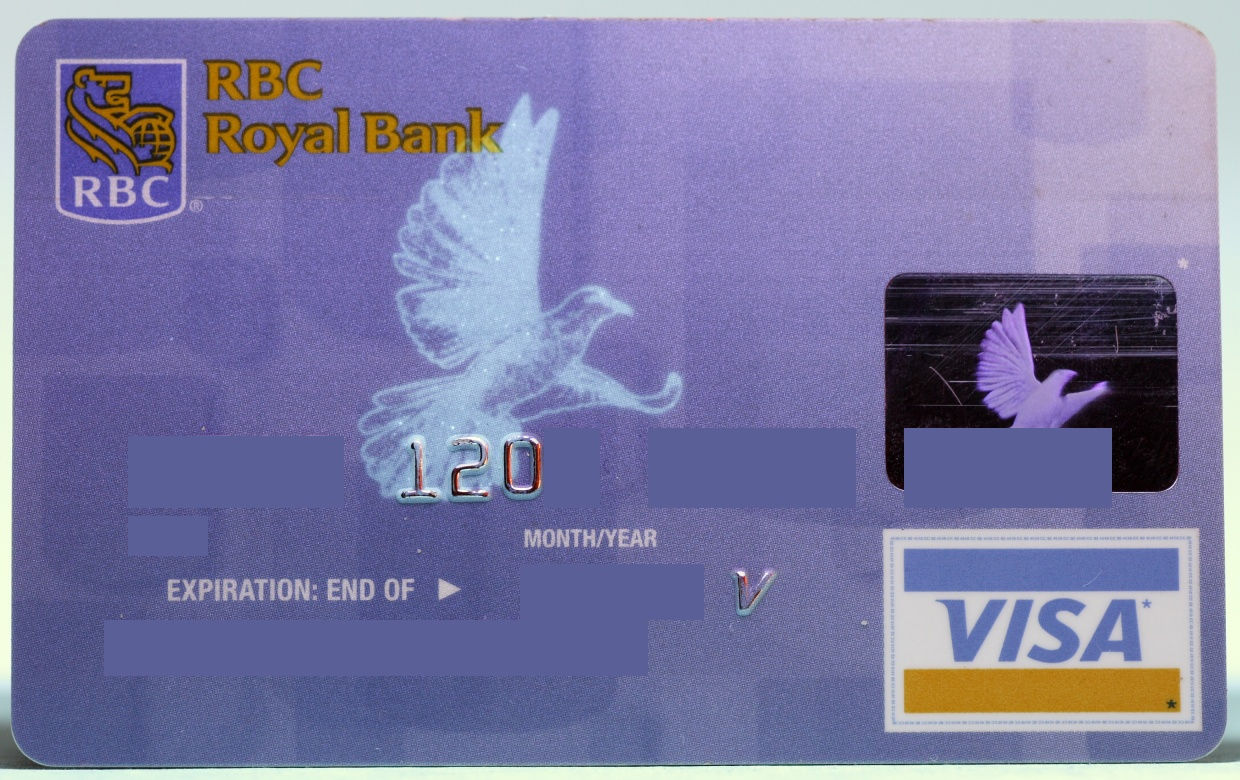 Photo of a RBC Visa taken under a UV light to show the florescent Visa Bird.